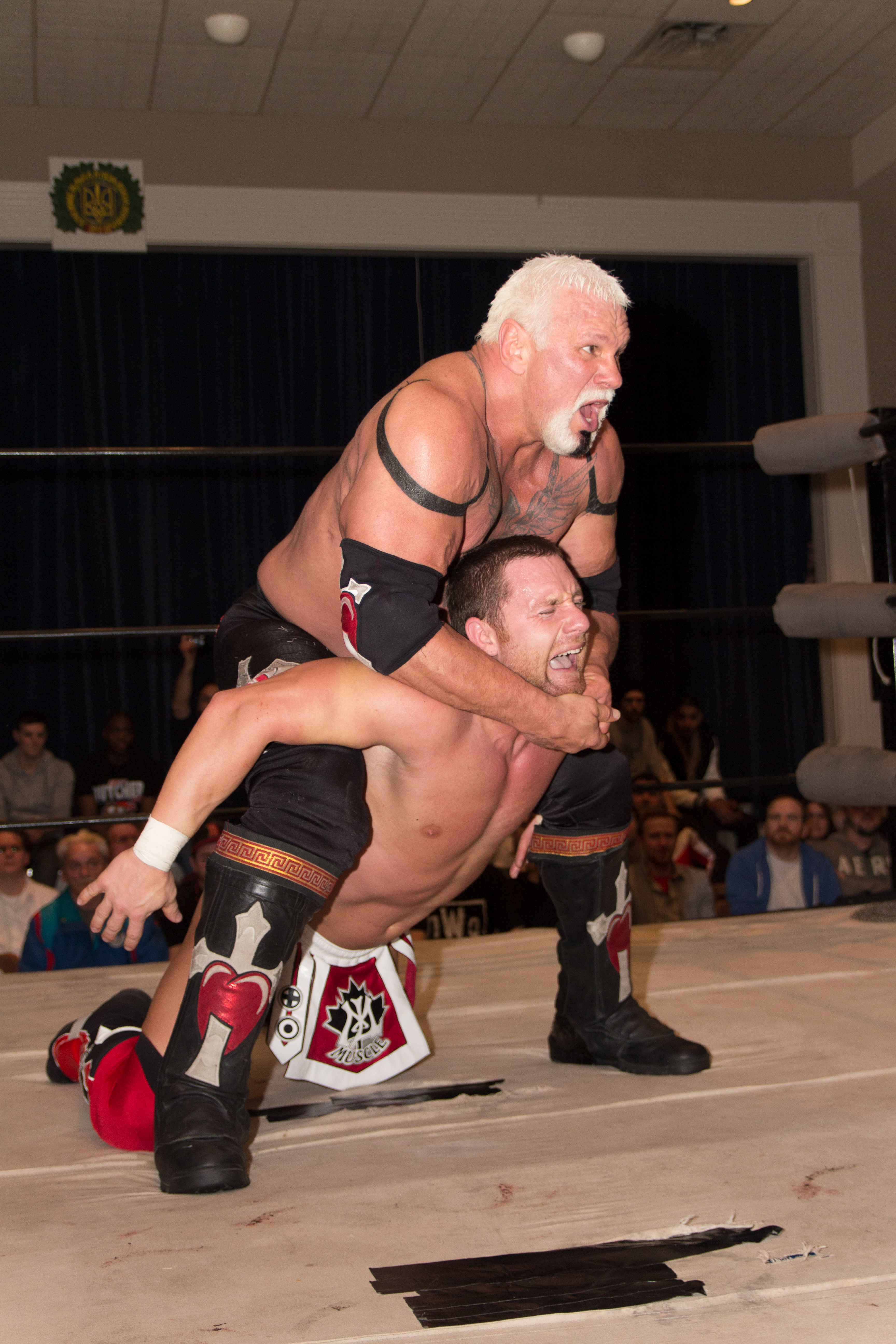 Scott Steiner executing his Steiner Recliner finisher against Petey Williams at the Hardcore Roadtrip's Born 2B Wired show in London, ON